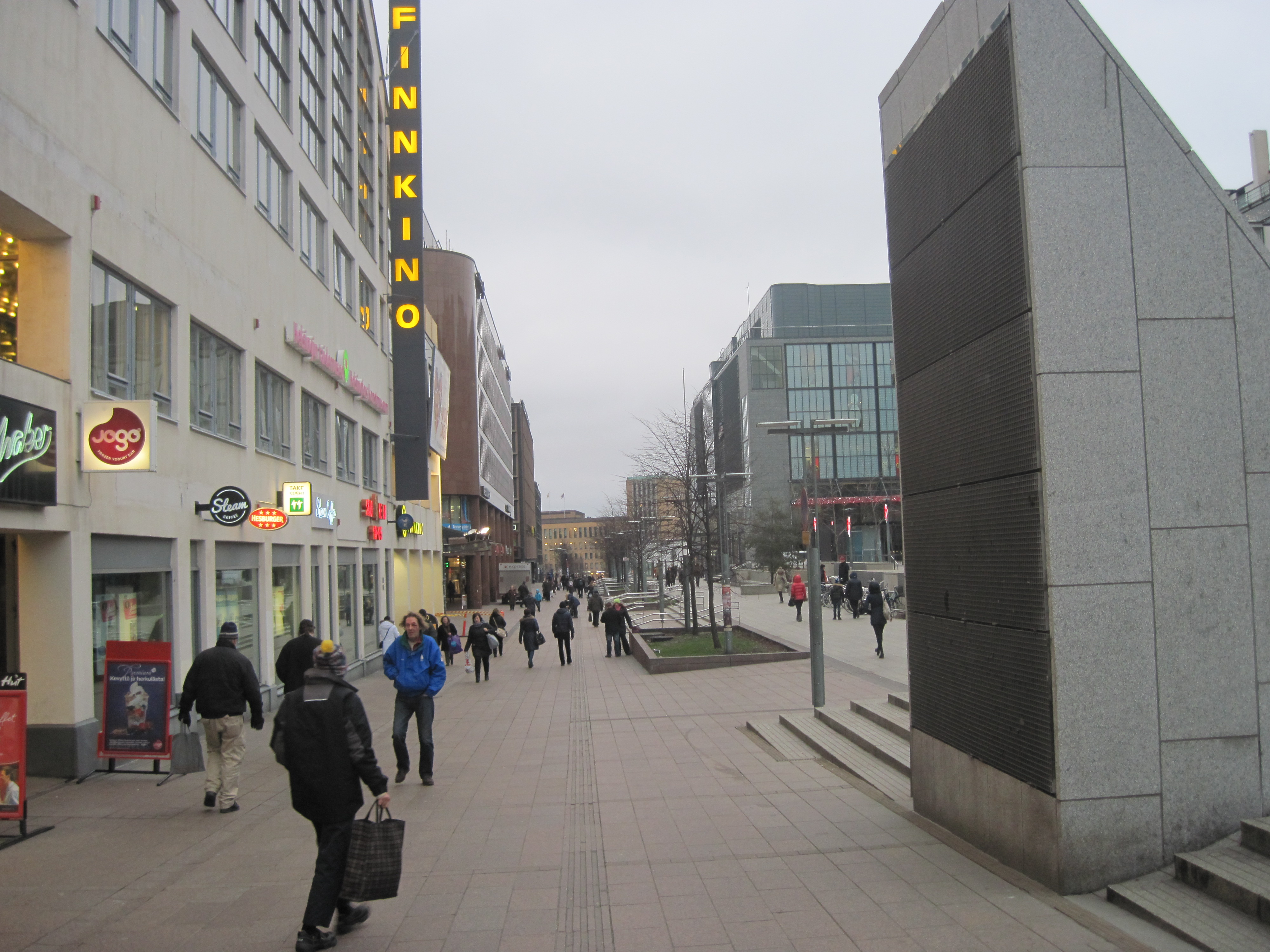 Salomonkatu, Helsinki, East of Fredrikinkatu